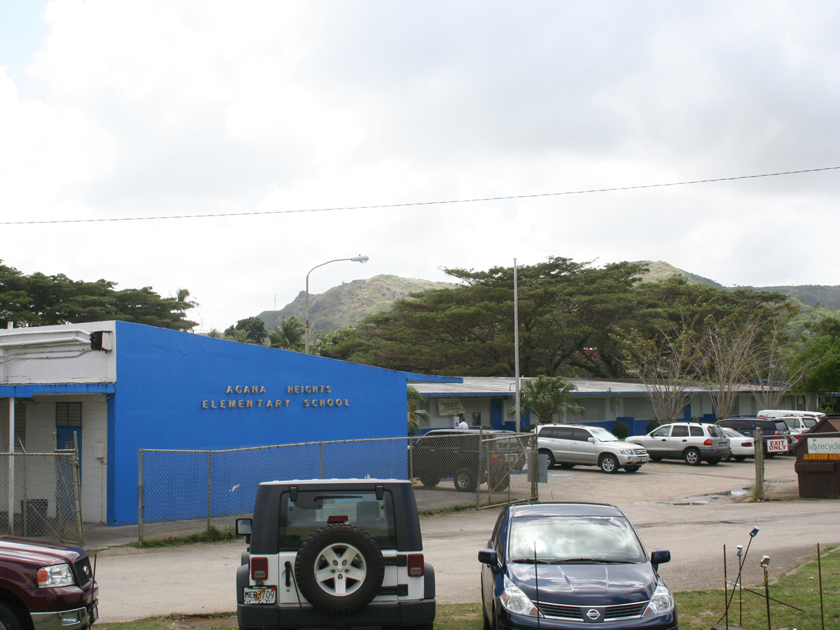 Agana Heights Elementary is a Guam Public School System school for students in Kindergarten through 5th grade. It first opened in 1958. Nathalie Pereda/Guampedia